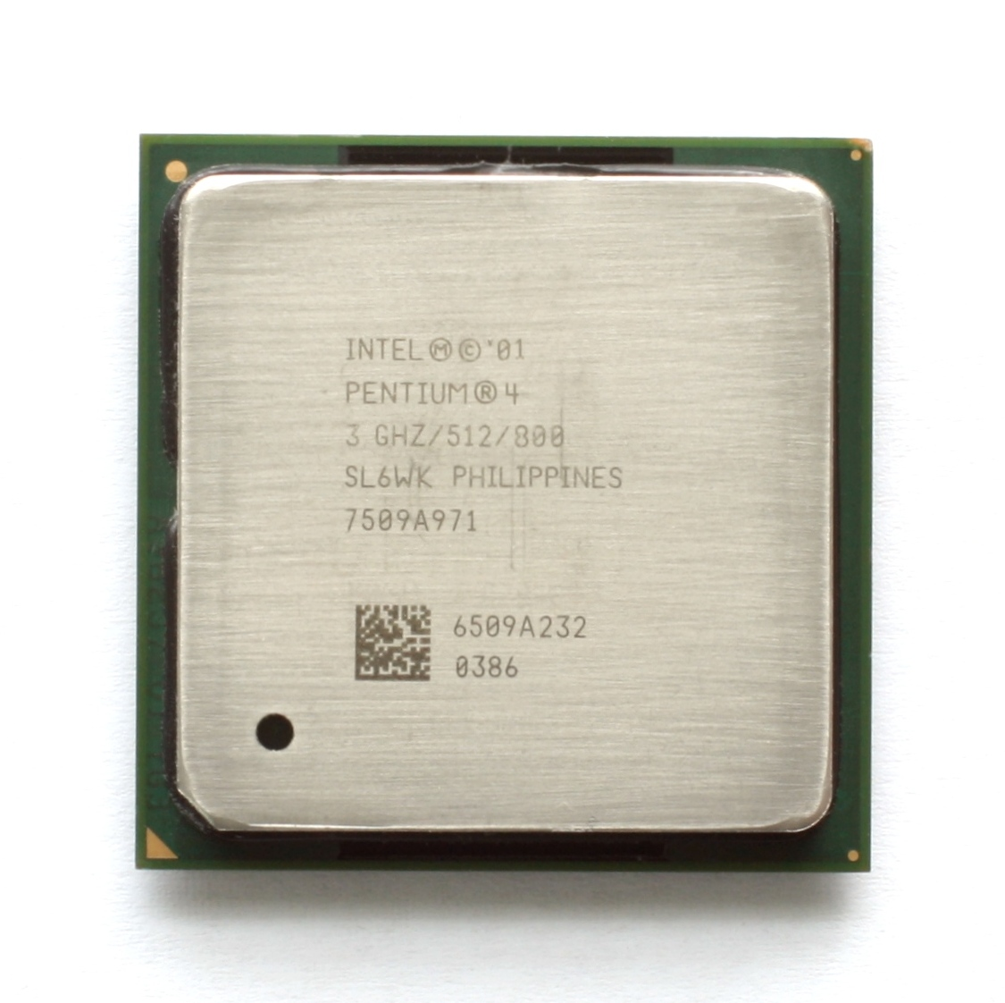 CPU Intel Pentium 4 Northwood.